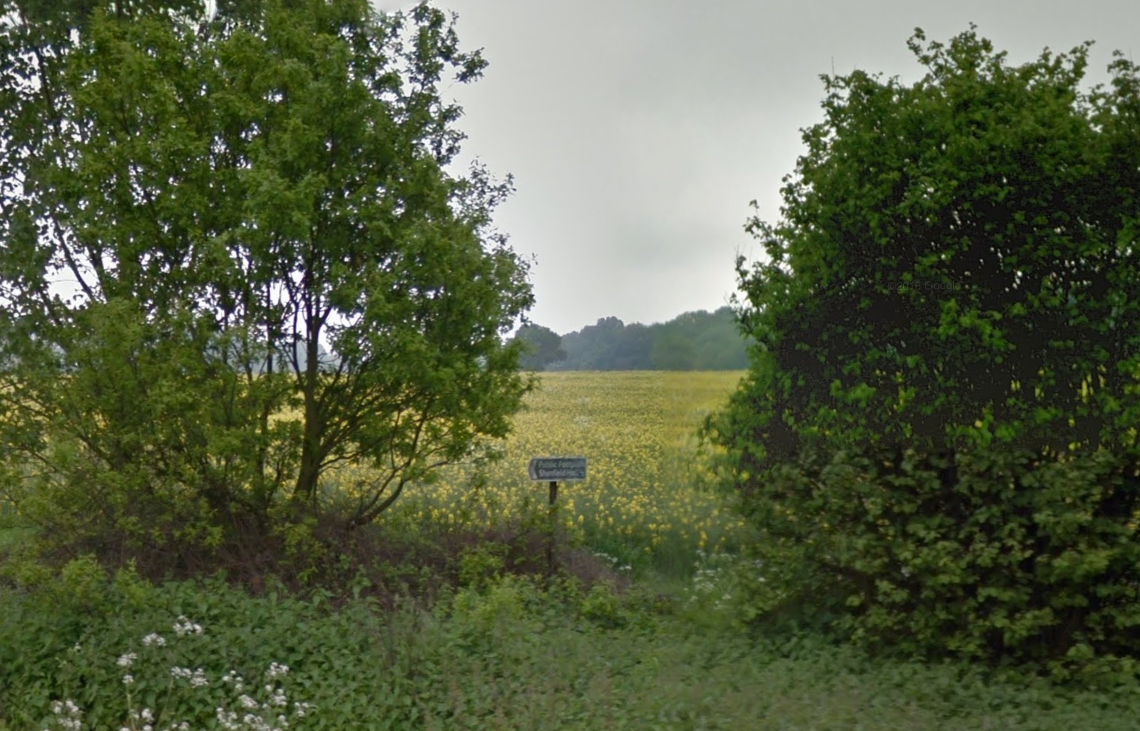 The sign can be seen for the footpath to Shenfield Hall across the fields and Hall Wood.